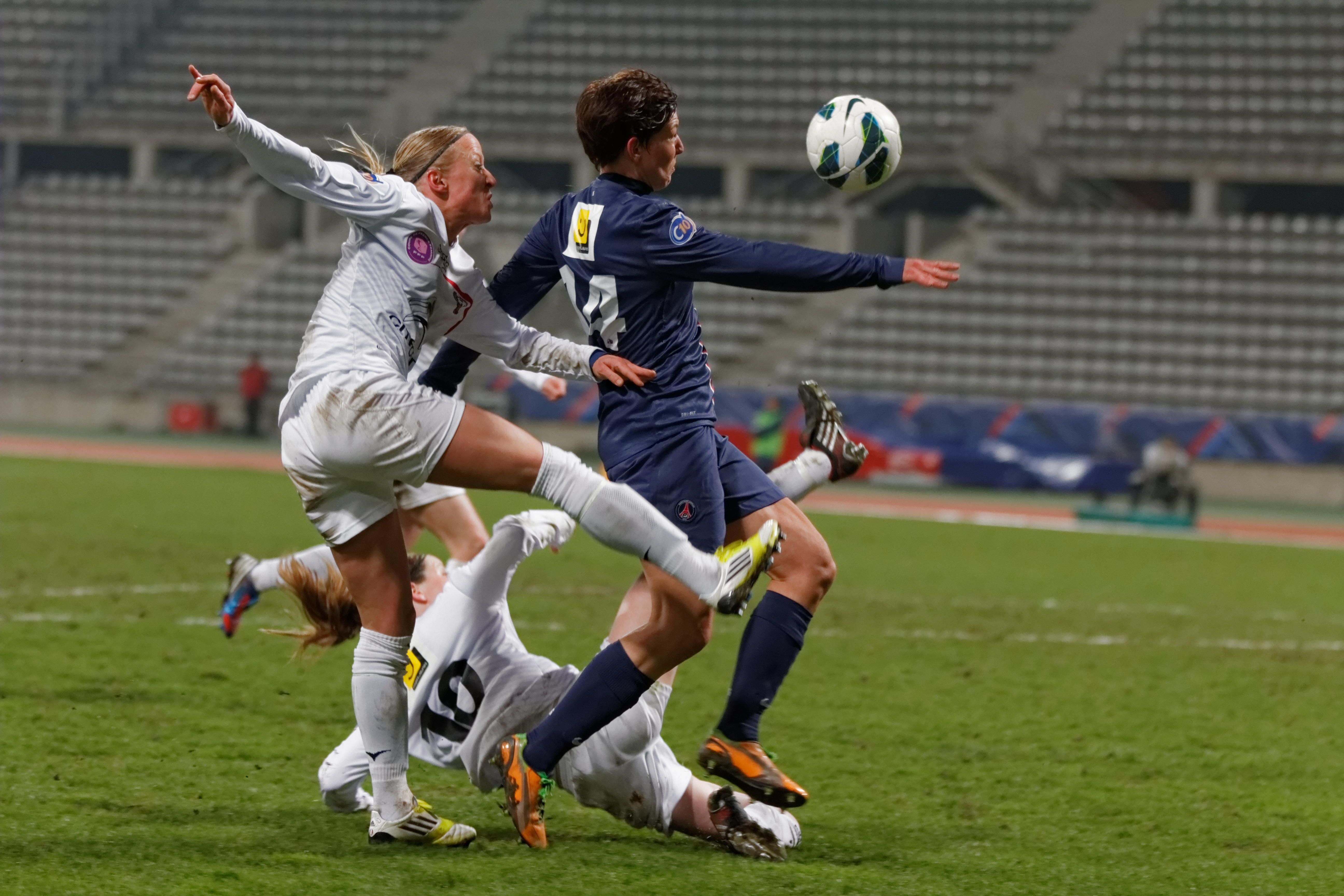 PSG-Juvisy, March 23th, 2013.